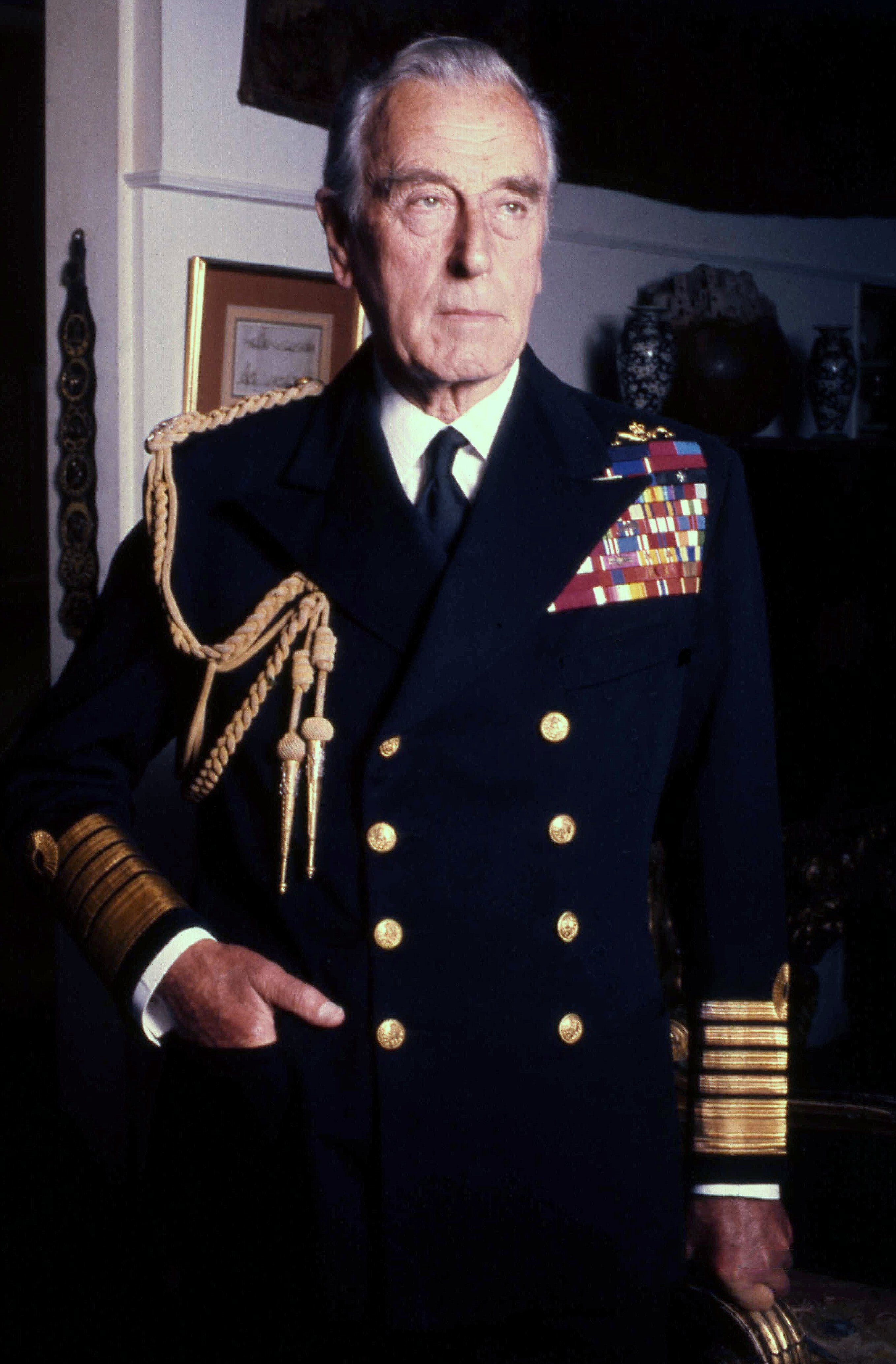 Earl Mountbatten of Burma